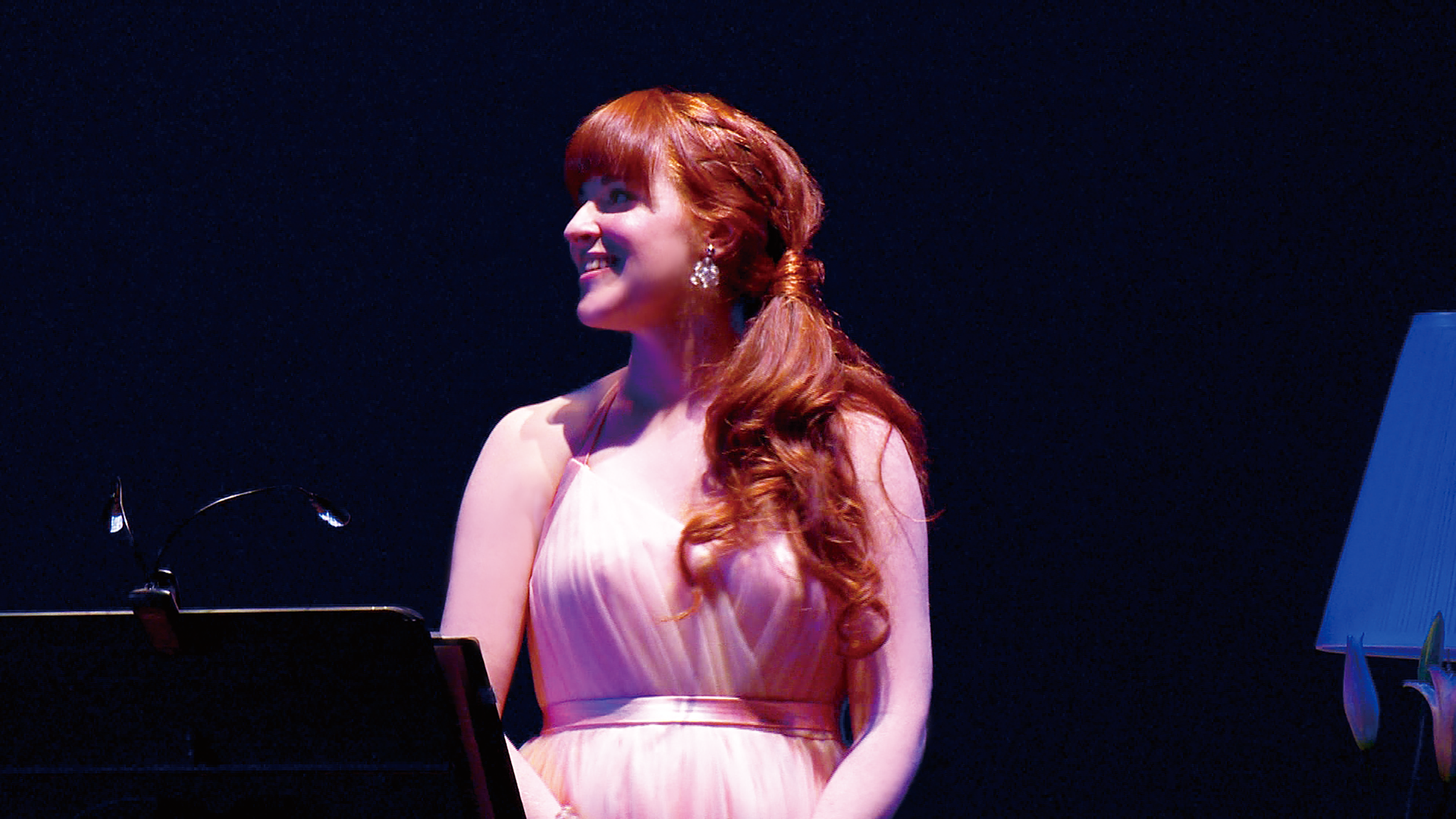 Diana Panton Taipei 2015